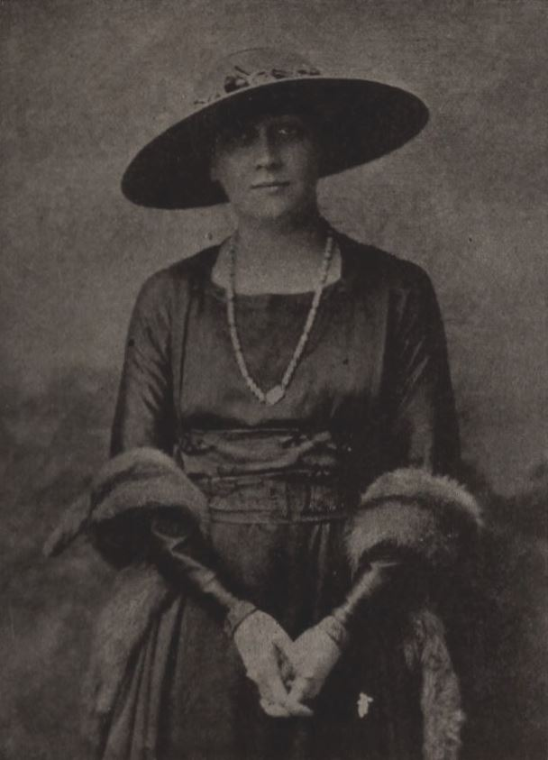 American writer Sophie Kerr (1880 – 1965), on page 37 of the November 6, 1920 The Moving Picture Weekly.